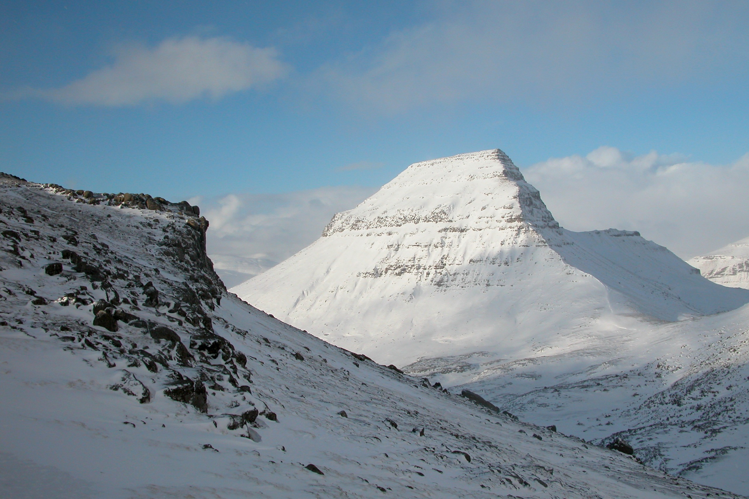 Mountain Sornfelli - 749 m. Streymoy, Faroe Islands